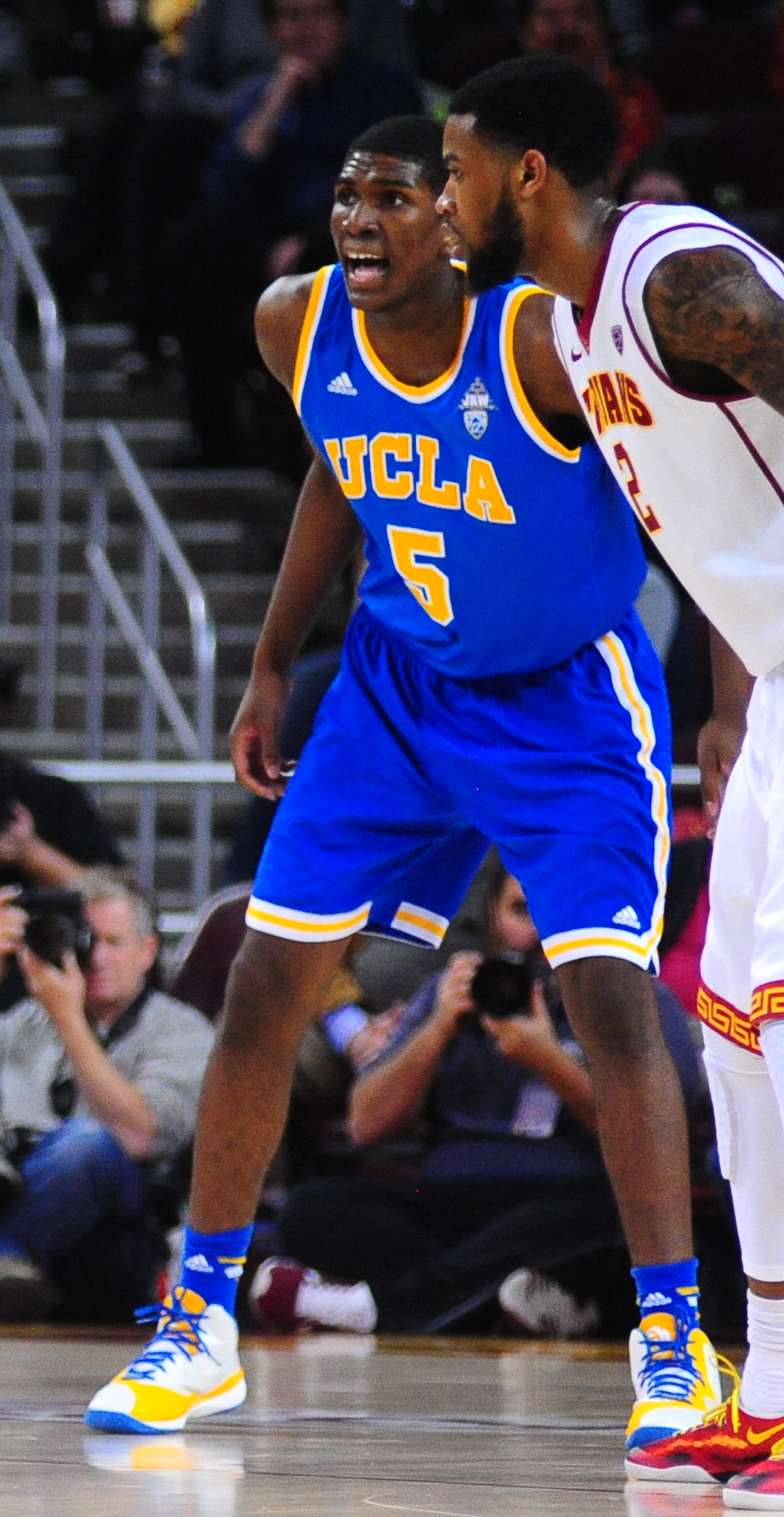 Kevon Looney of UCLA Bruins with Mailk Martin of USC Trojans